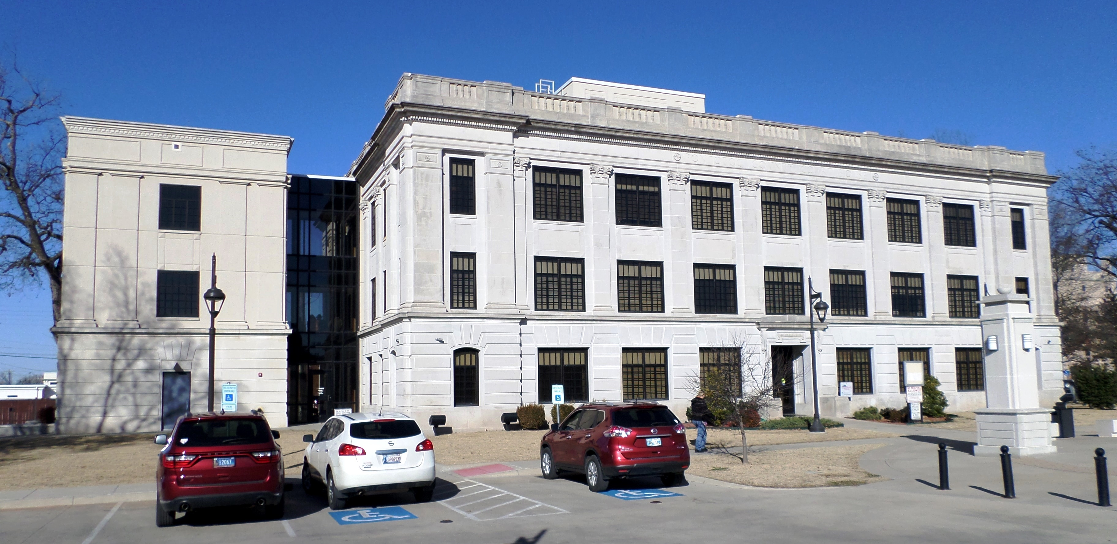 The Pontotoc County Courthouse, located at 120 W. 13th St., Ada, Oklahoma. The building is listed on the National Register of Historic Places.